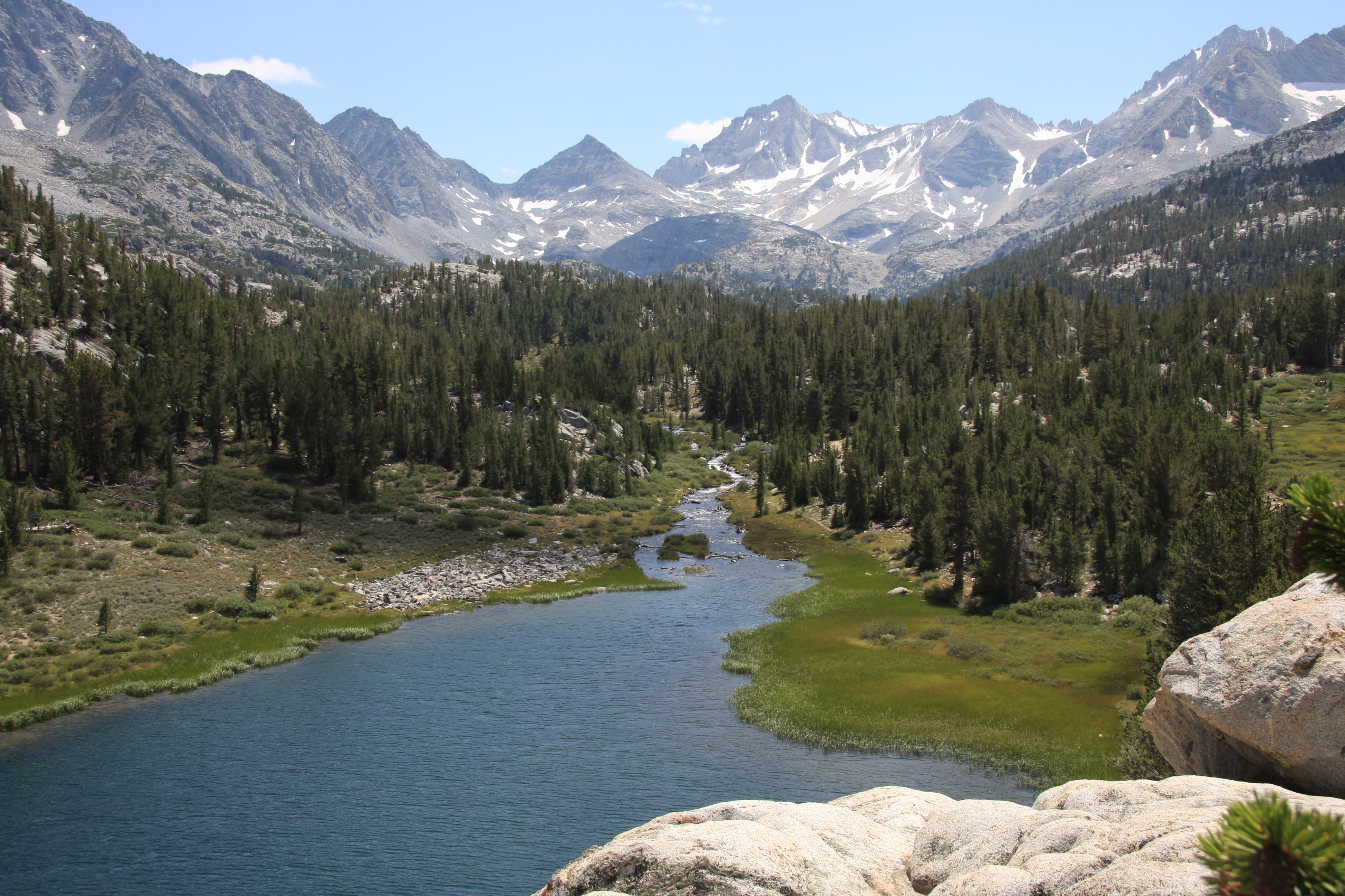 Little Lakes Valley from ledges above Mack Lake (10,800 ft or 3,300 m), on Upper Rock Creek. John Muir Wilderness, Sierra Nevada USA.